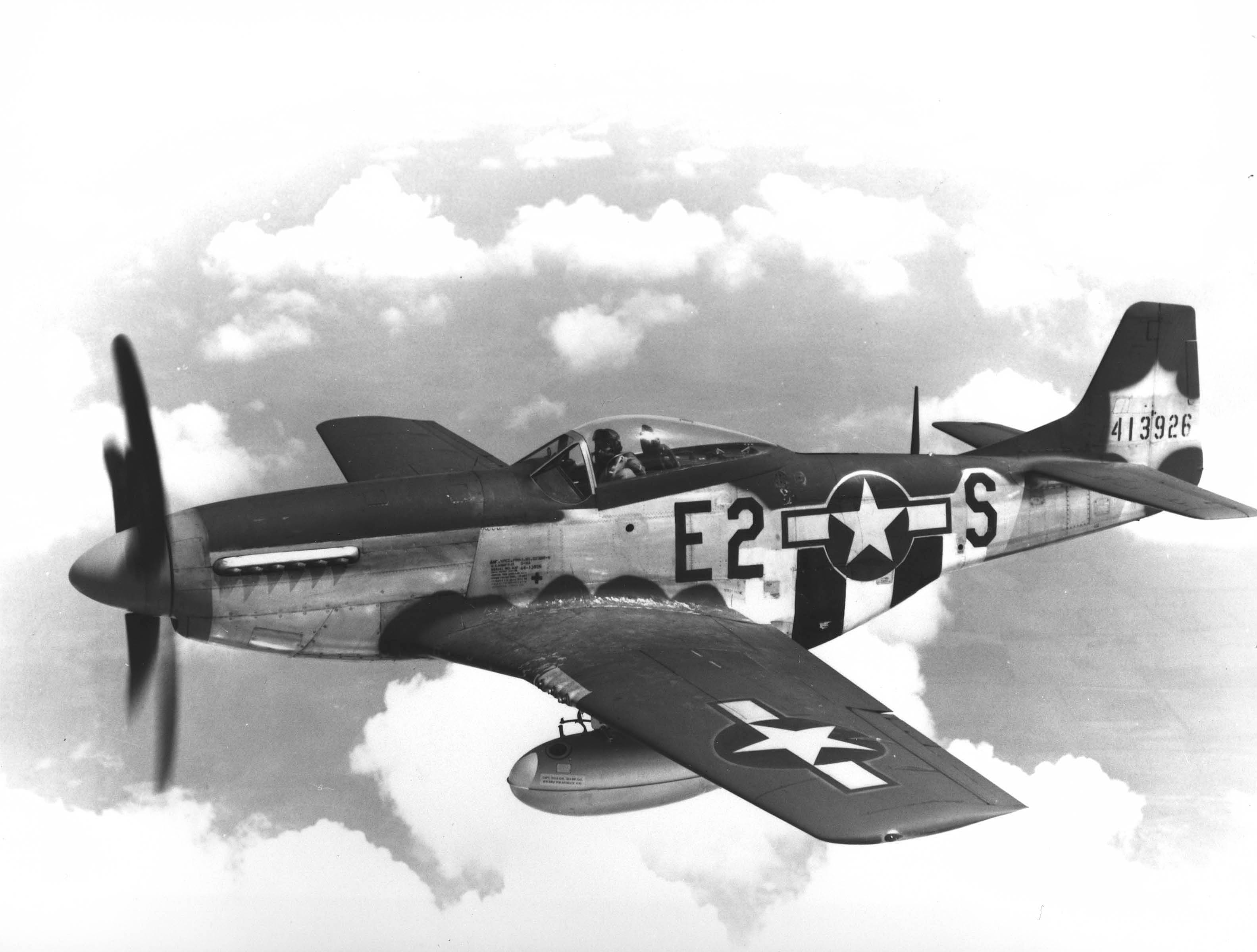 North American P-51D-5-NA Mustang #44-13926 from the 375th Fighter Squadron. Aircraft crashed on 9 August 1944, and the pilot was killed. The aircraft located at the Olympic Flight Museum in Olympia, Washington, which carries the serial number 44-13926 and is marked as airworthy, is a recreation of the original.